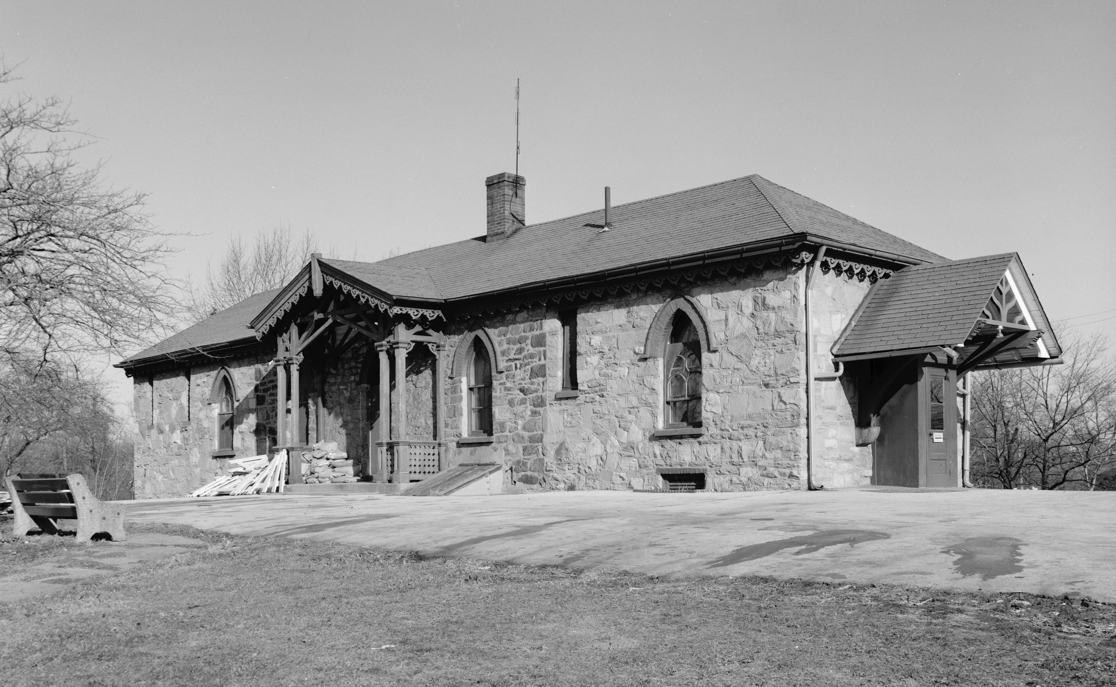 General view of Sedgeley's tenant's cottage or porter house